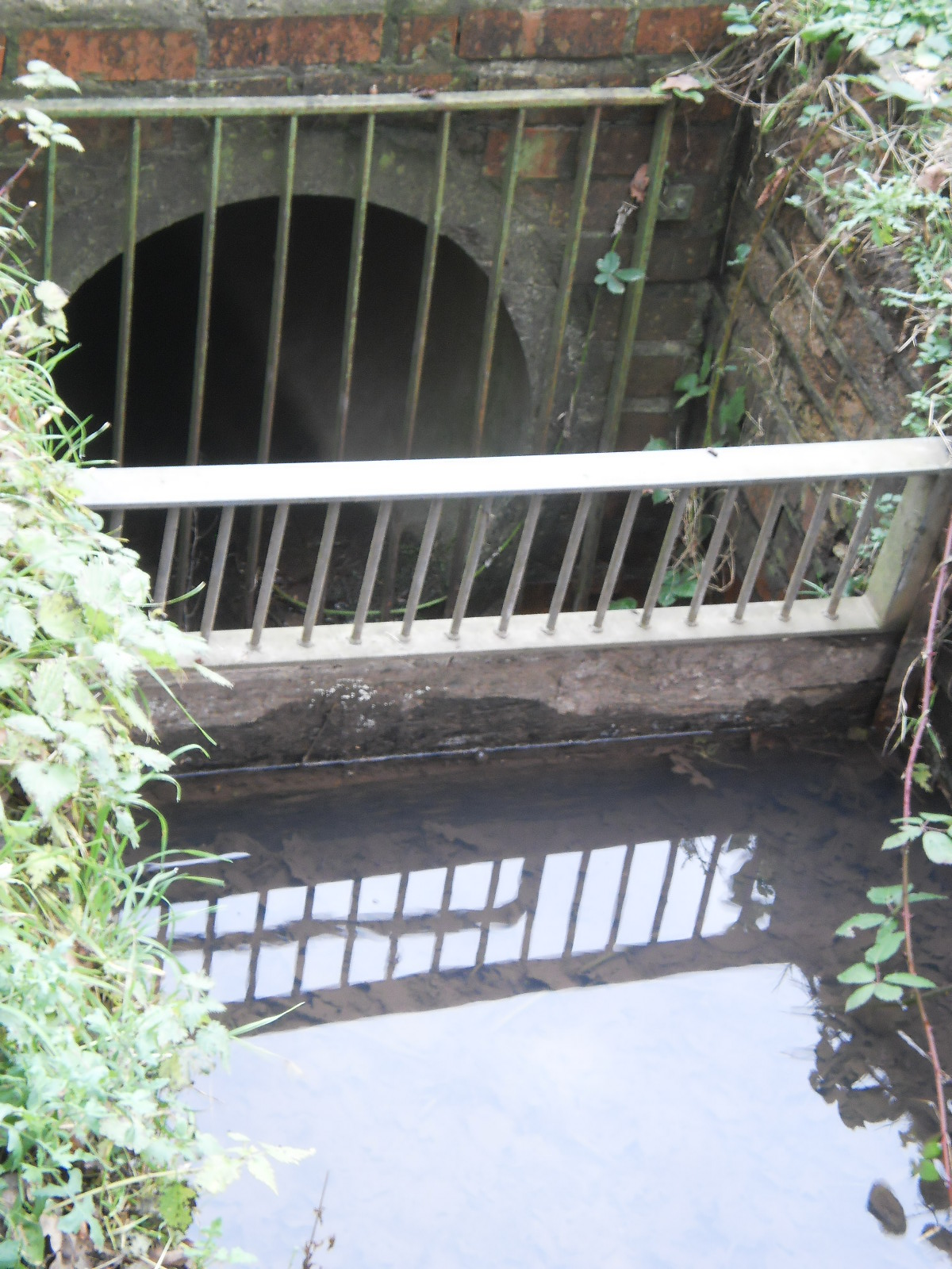 End of a little brook near Herrmannstrasse (Marburg-Ockershausen).